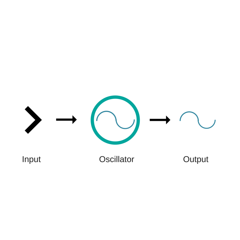 This is a model of the Eskinogram, a heuristic developed by Arnold Eskin, for comprehending a circadian clock pathway.